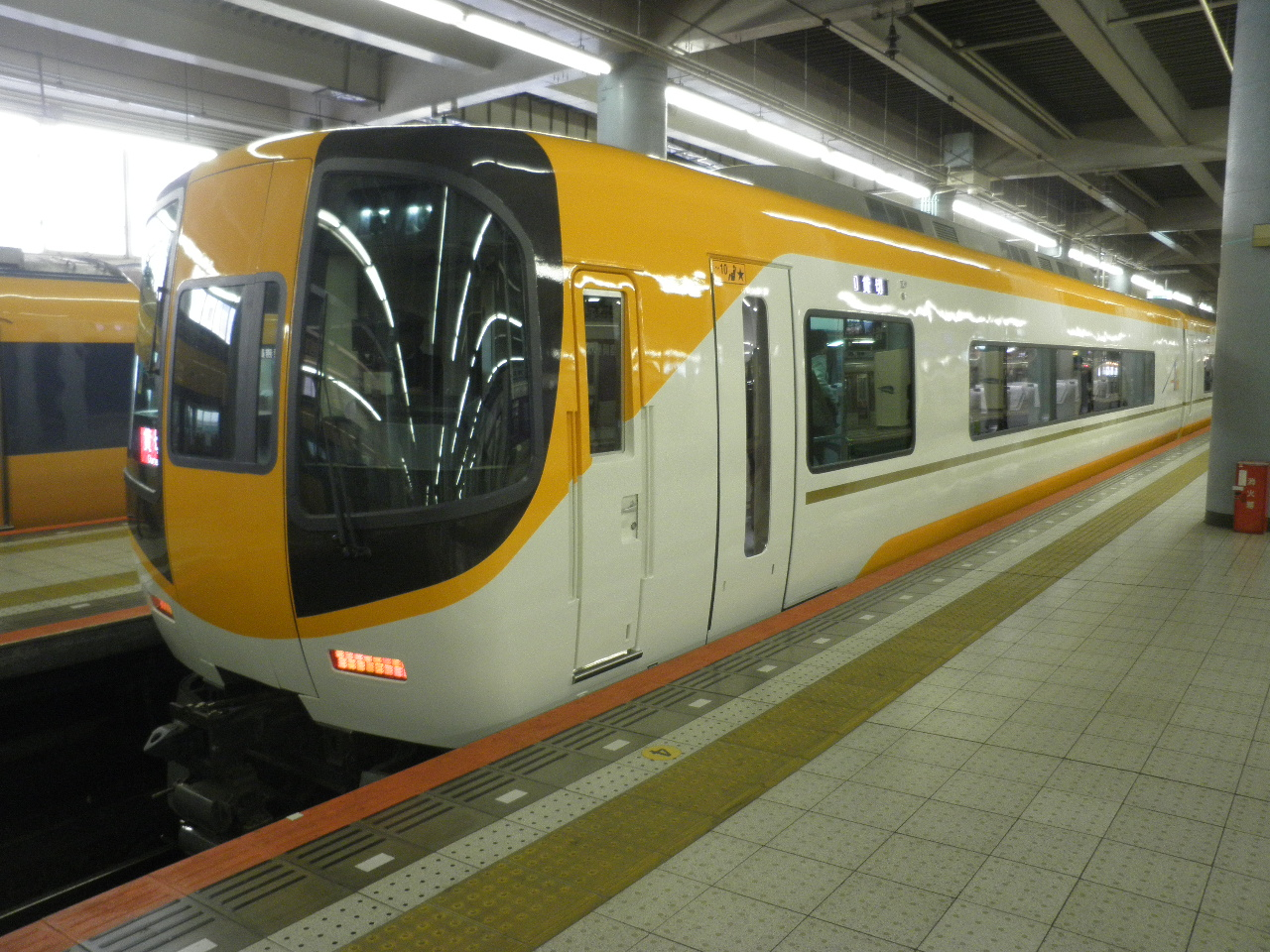 A refurbished Kintetsu 22000 series EMU